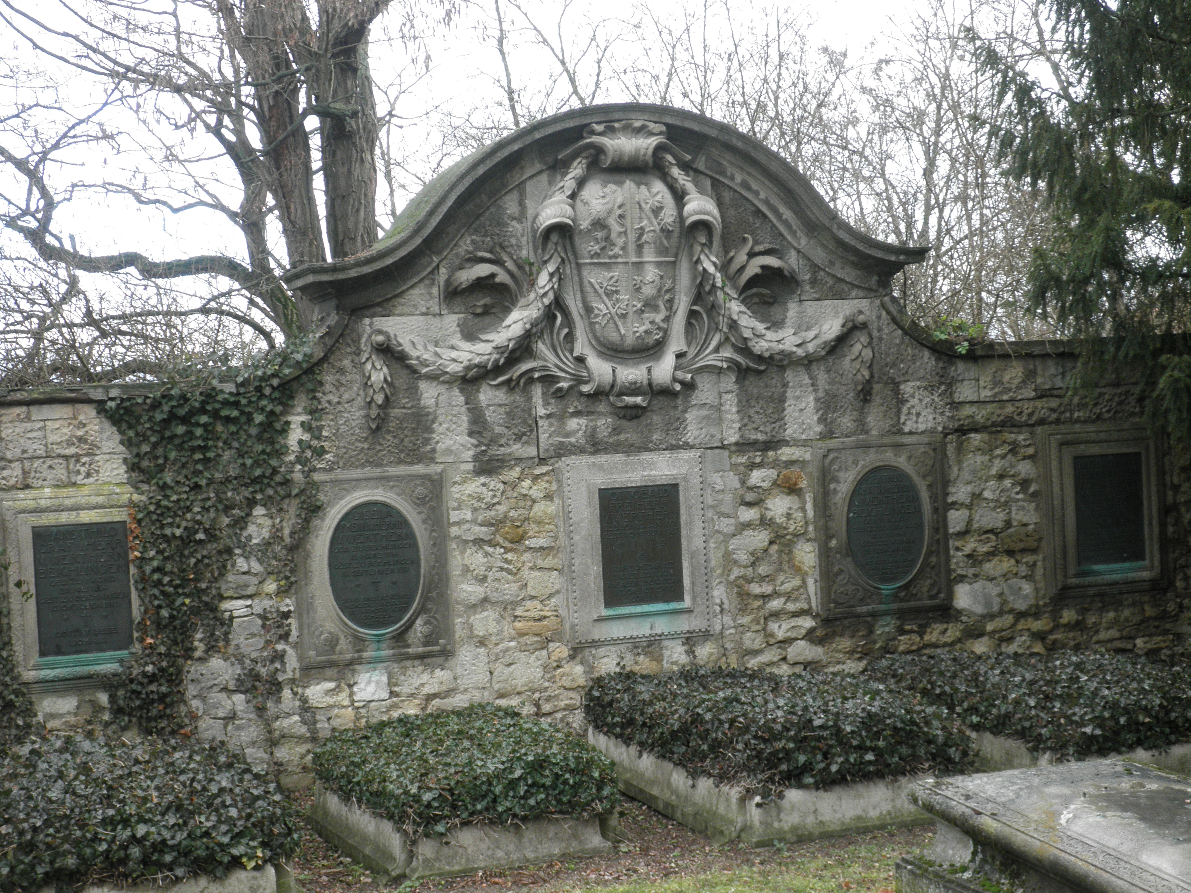 Place of Burial of Family von Werthern in Beichlingen in Thuringia